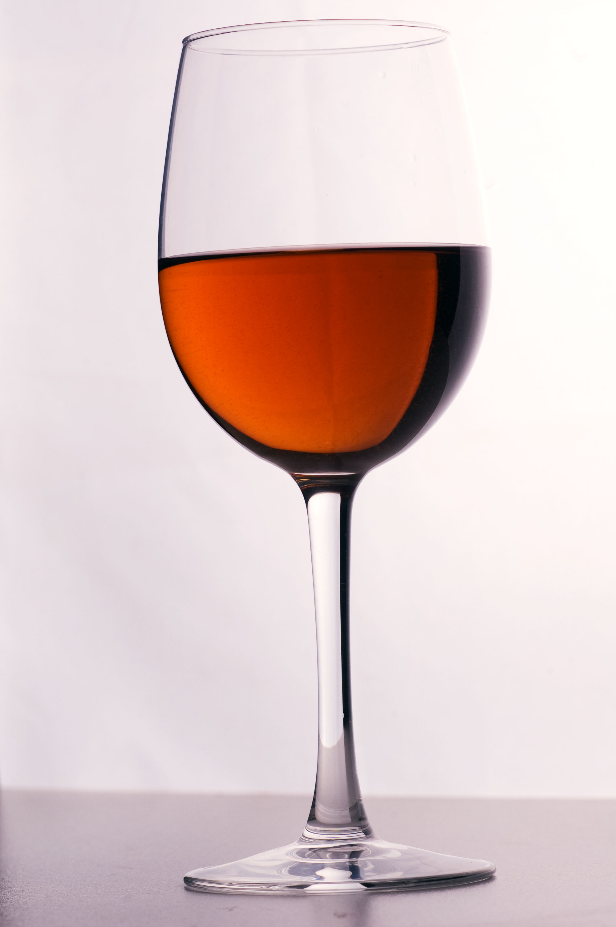 Recipe can be found at